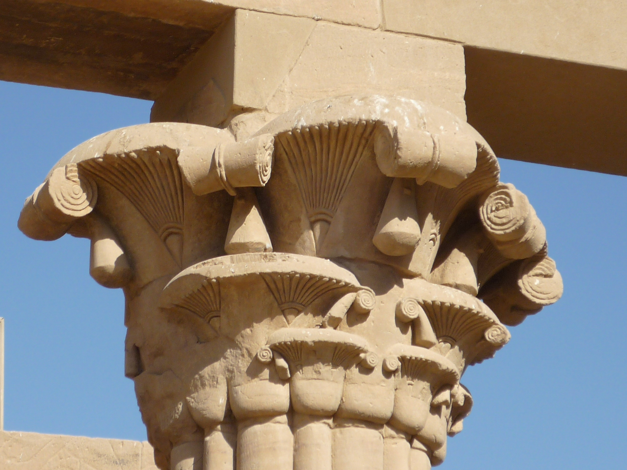 Capital of the Isis Temple esplanade, Philae Island, Egypt